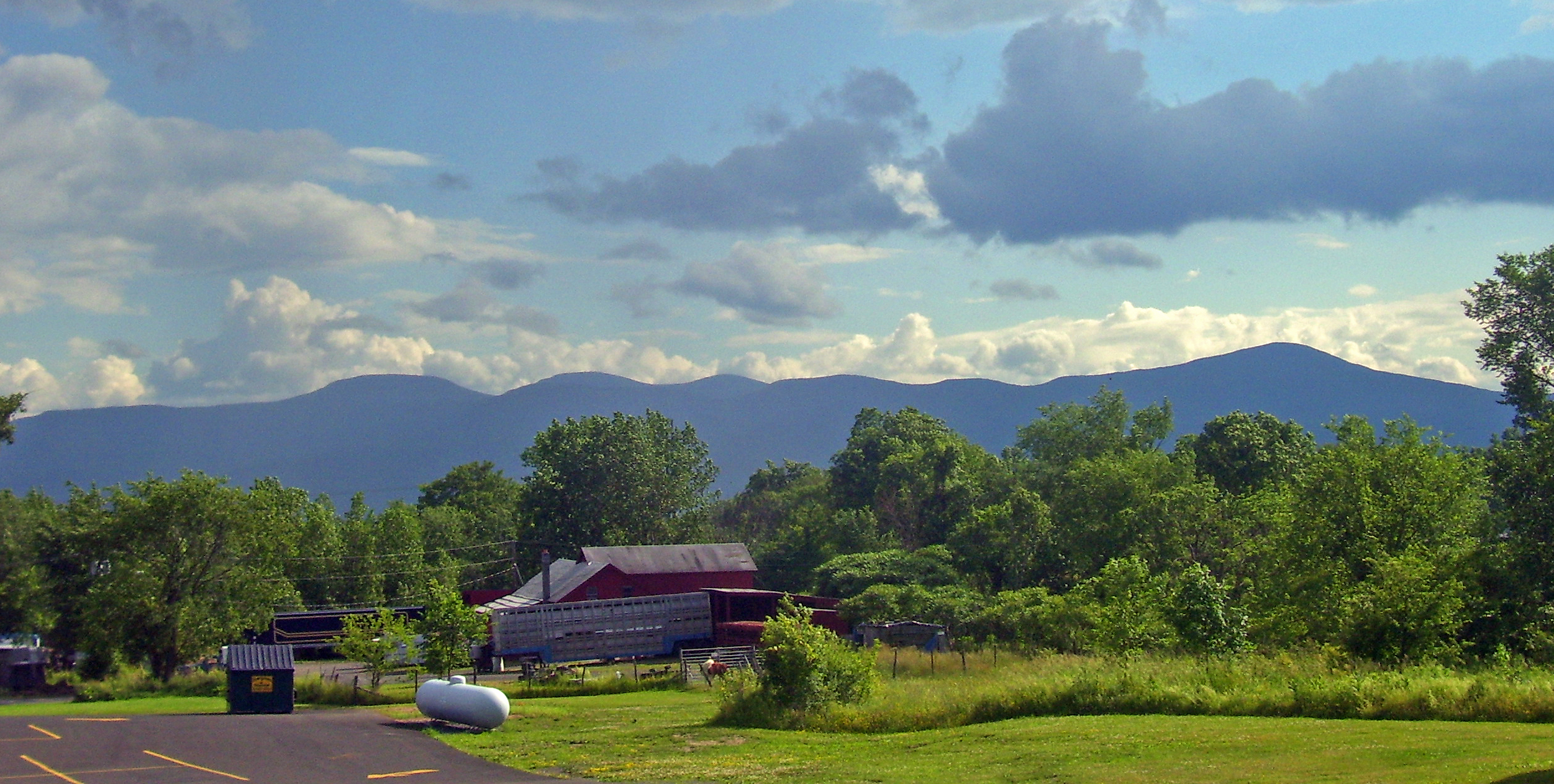 Catskill Escarpment from Greenville, NY, USA